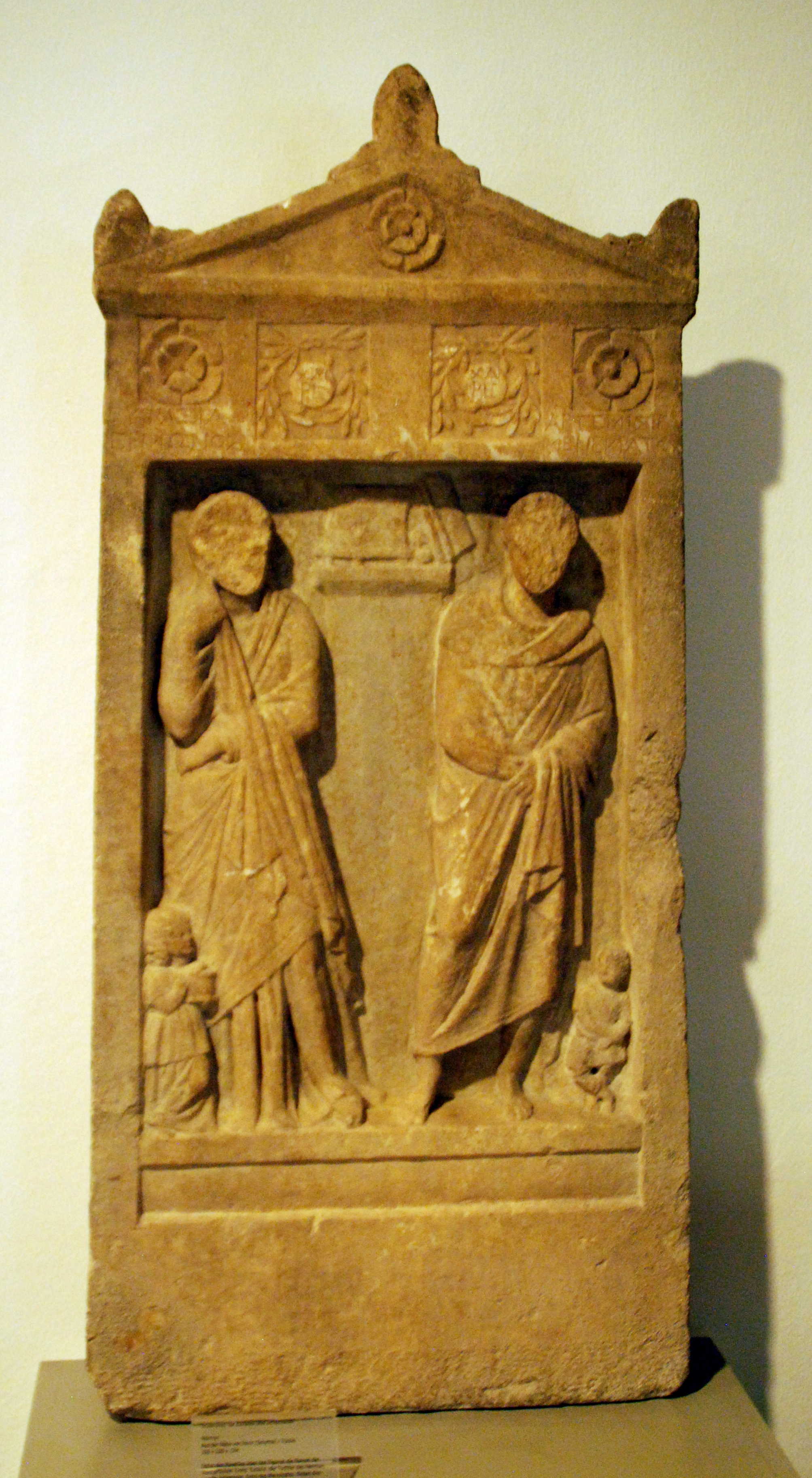 Grave relief of Eutaxia and Artemisios, Marble, Attica, about 2nd half of the 2nd century B.C., found near Izmir (Smyrna), Museum August Kestner, Inv. I 45